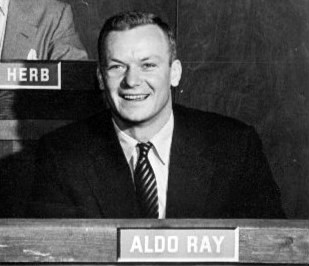 Photo of actor Aldo Ray as a panelist on the game show Twenty Questions, 1954.